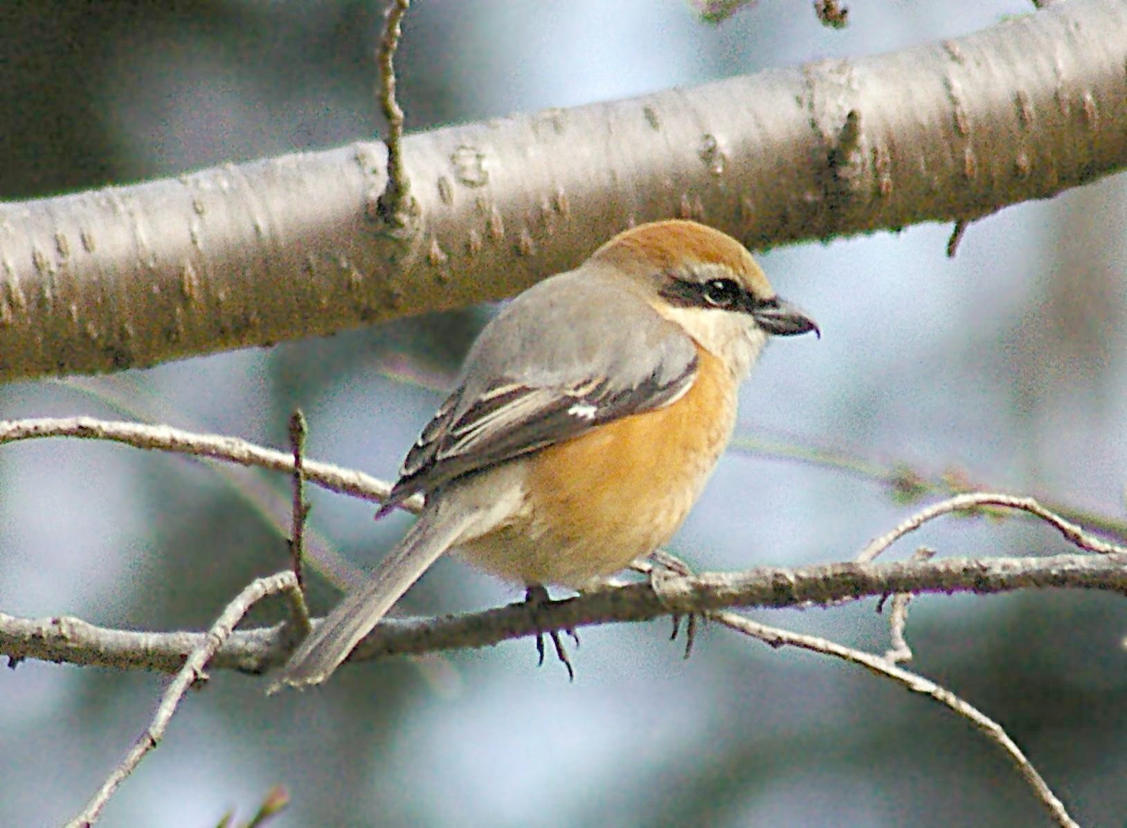 Bull-headed Shrike (mozu) Lanius bucephalus. Japan, Tsukuba (wild) winter 2007.